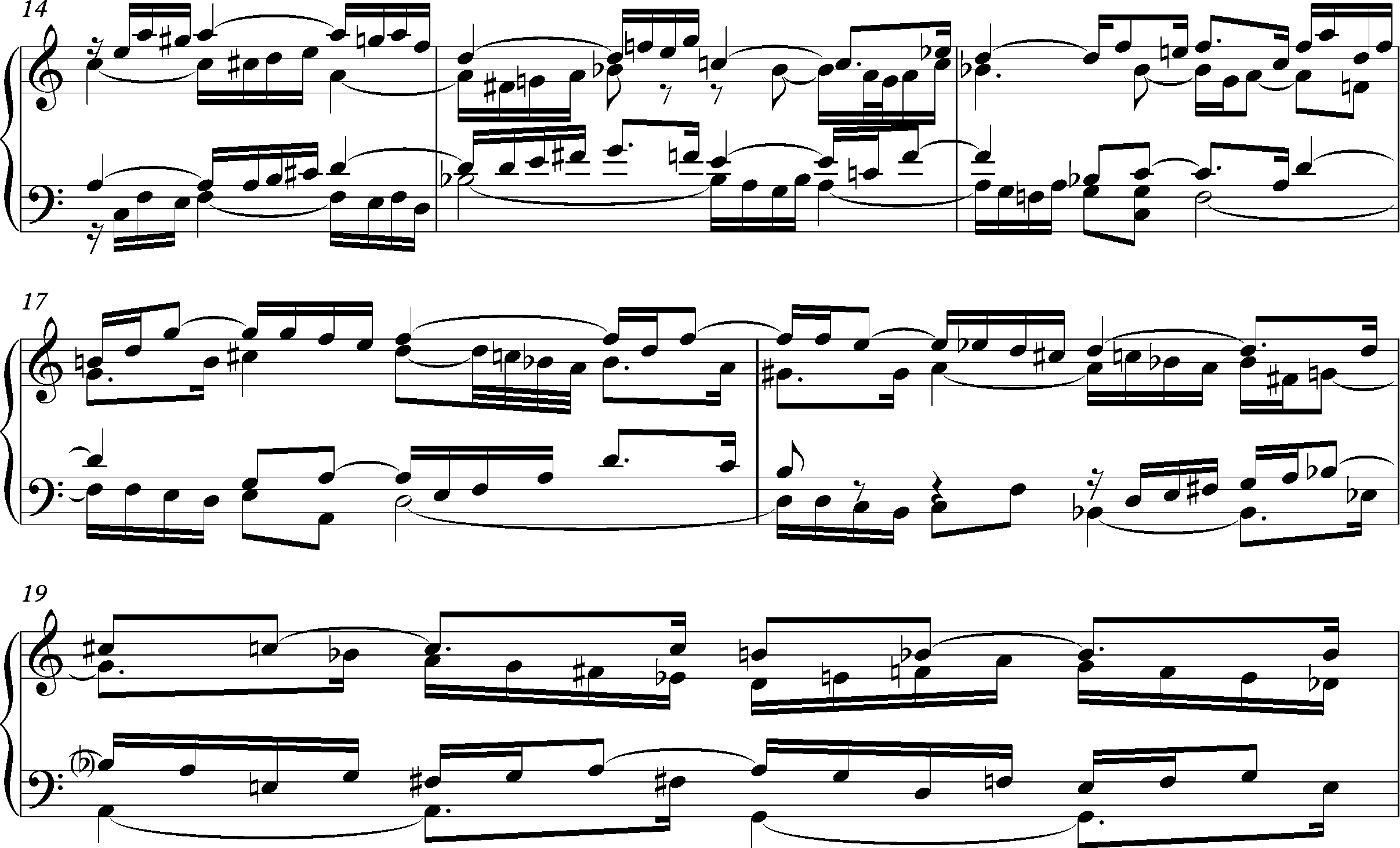 Prelude in C from Well-Tempered Clavier Book 2 bars 14-19